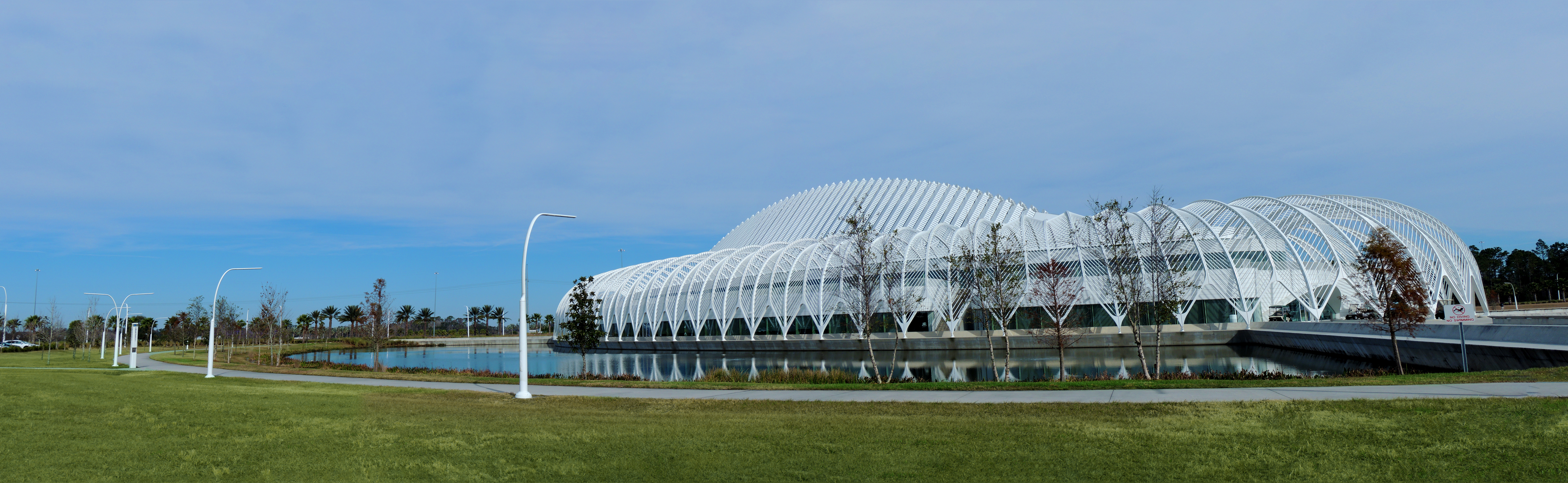 A wide panoramic shot of Florida Polytechnic University from outside.